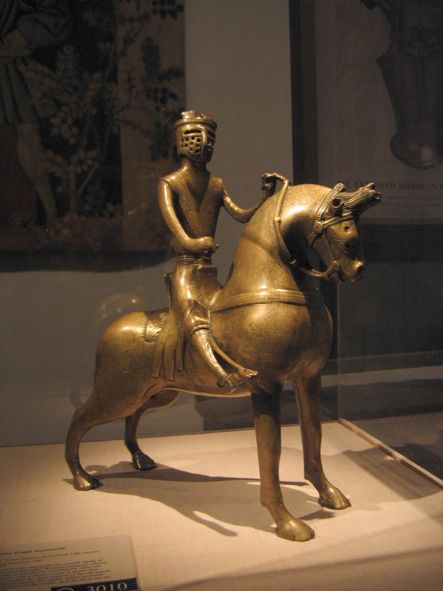 Equestrian Knight Aquamanile, second half 13th century. German, Lower Saxony. Bronze. Metropolitan Museum of Art, New York City.